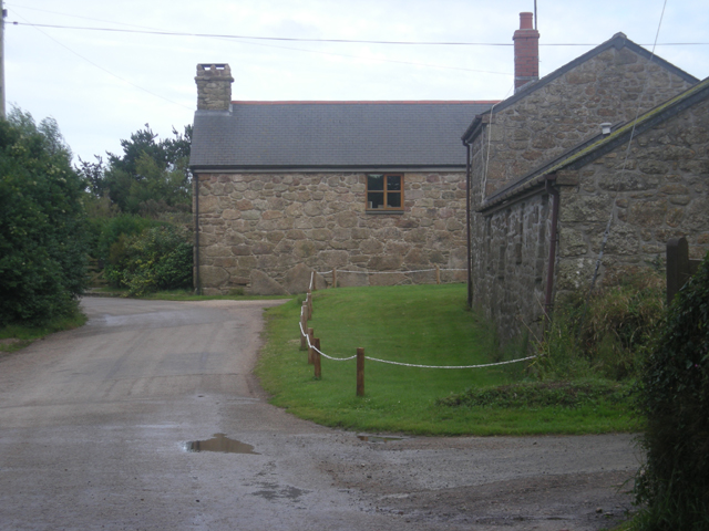 Lane through Tregadgwith